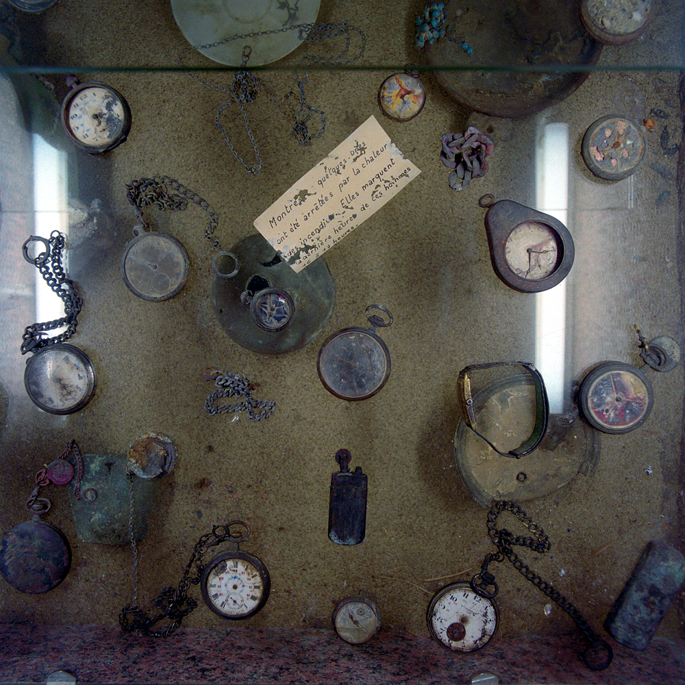 Collection of watches at the french memorial Site Oradour